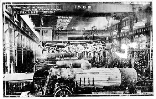 Railway car factory of SMR.Shahokou（大連沙河口滿鐵機関車工場）